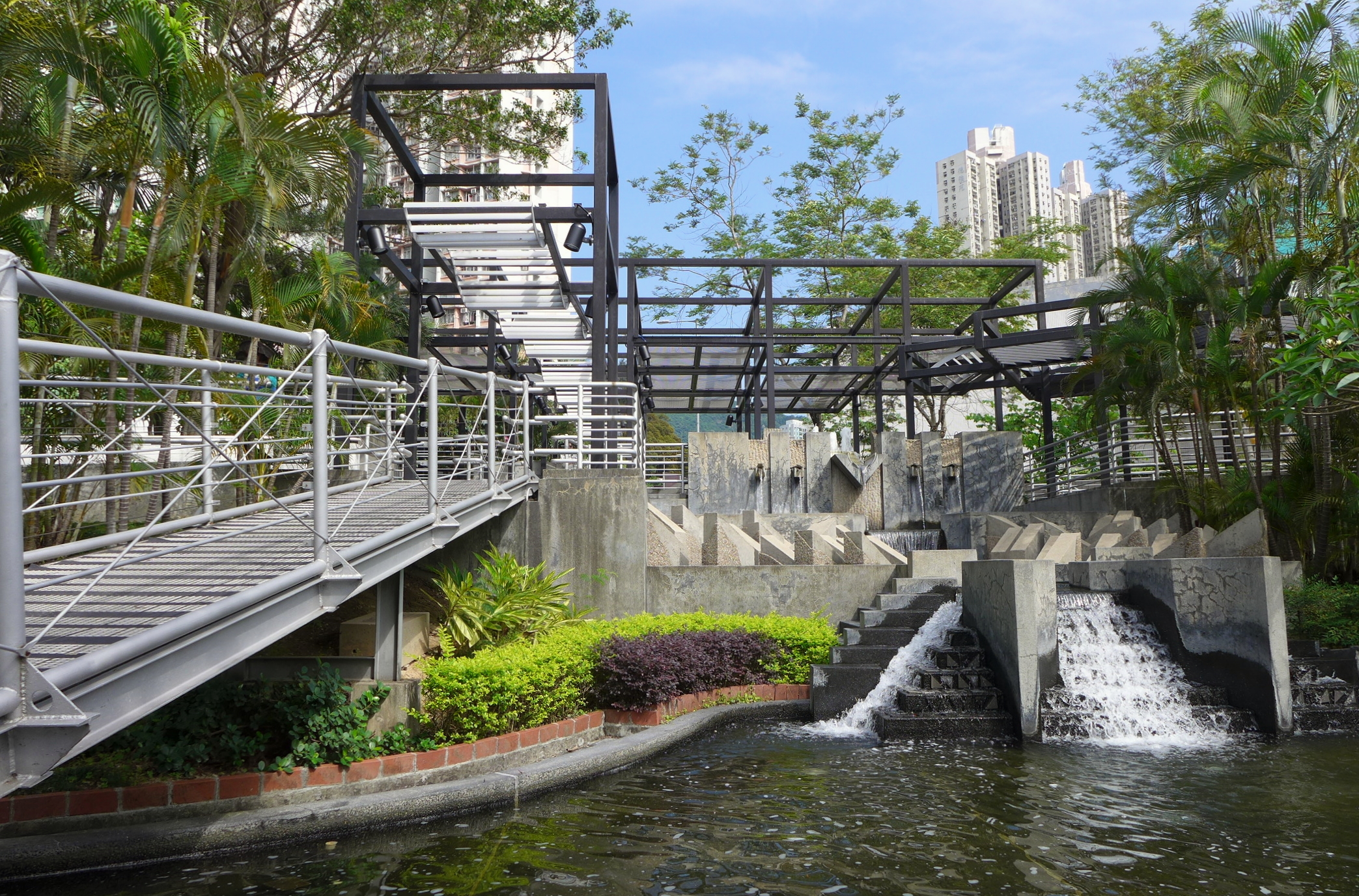 Lok Fu Recreation Ground Water feature